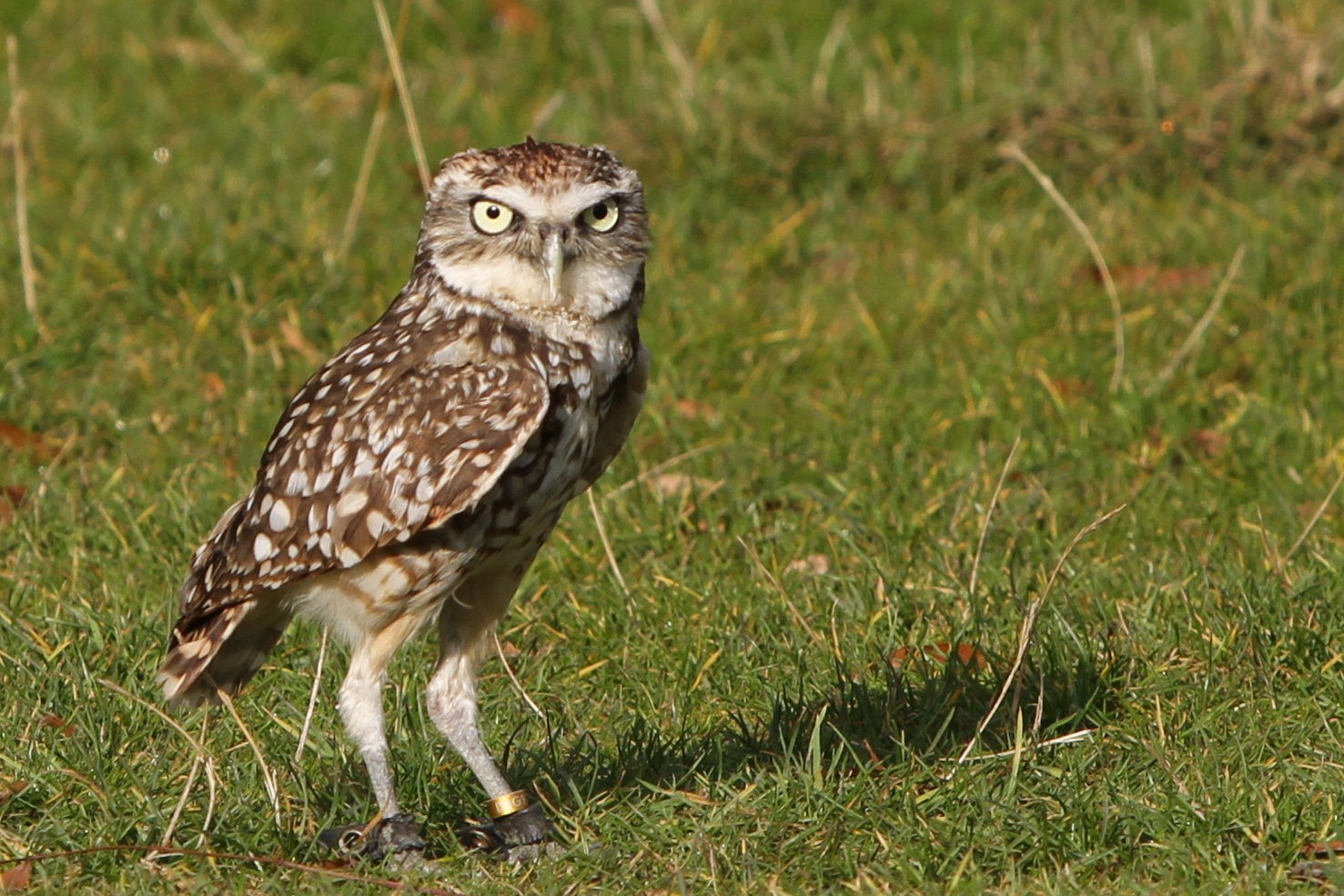 Burrowing Owl at Diergaarde Blijdorp, Rotterdam, Netherlands.